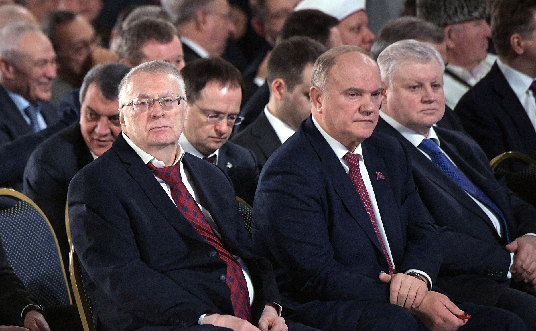 Putin Presidential Address to the Federal Assembly (2018-03-01)